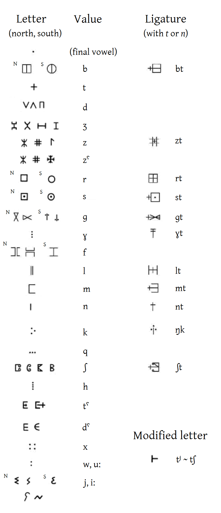 The traditional Tifinagh abjad, including ligatures